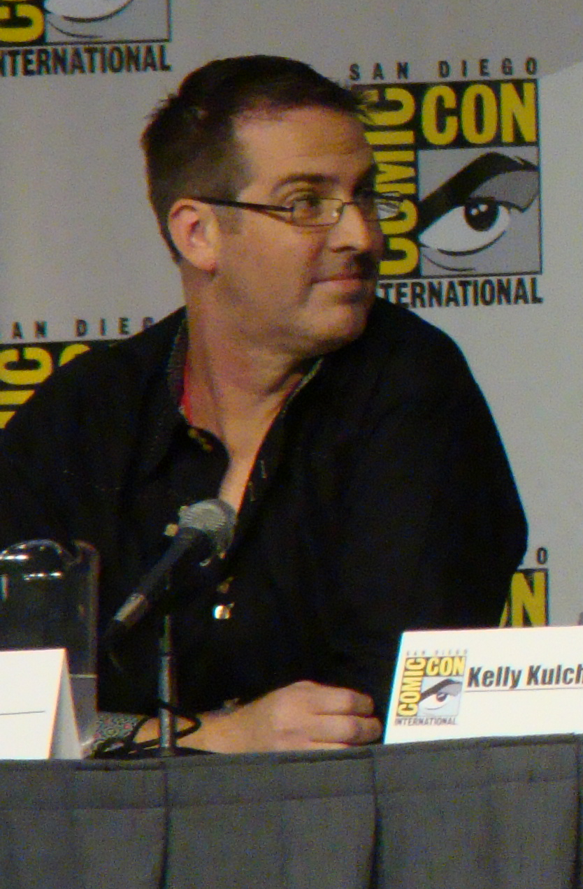 Steve Franks at the San Diego Comic Con.